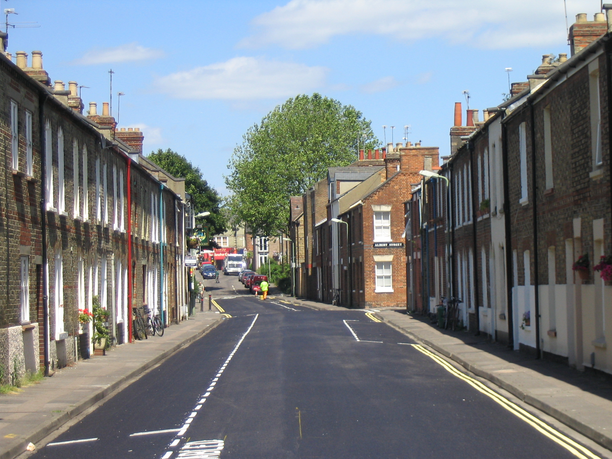 Much of Jericho consists of two-up, two-down terraced houses.